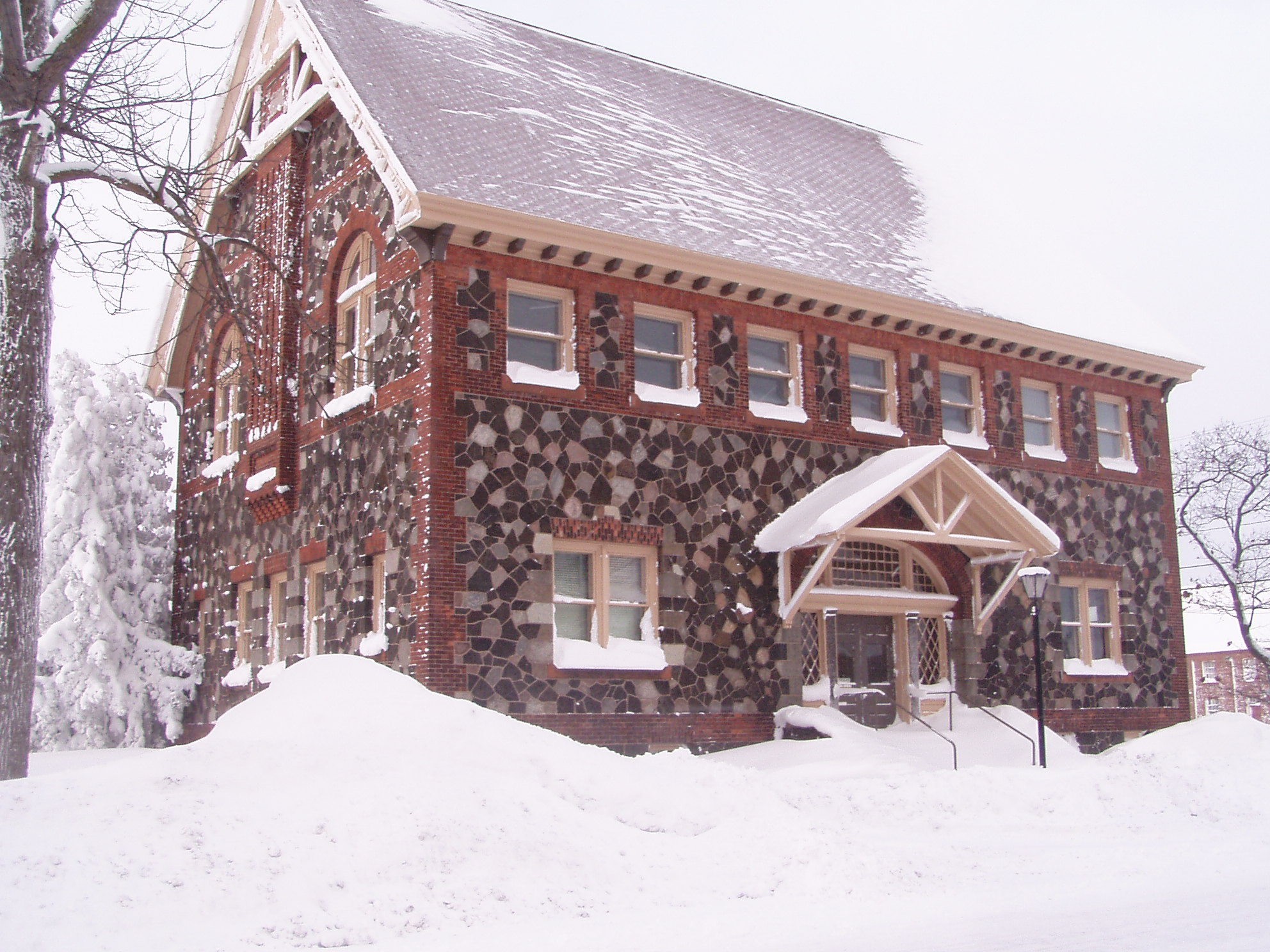 The C&H Mining Company provided a library and bathhouse for its employees.